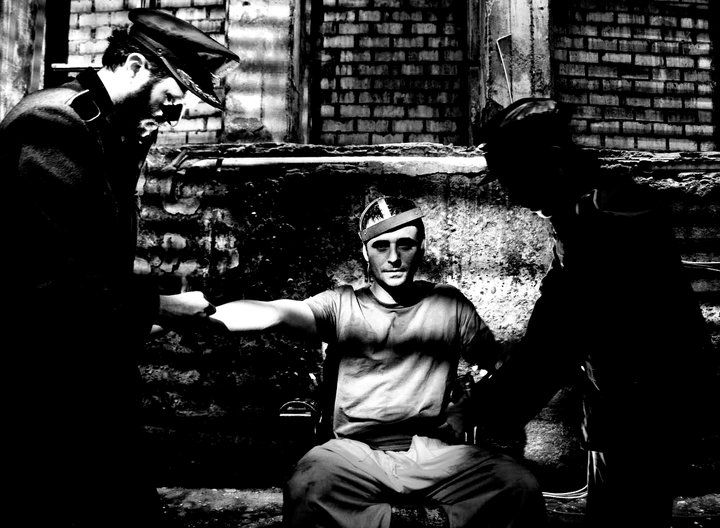 Screenshot of the short film "Milgram".